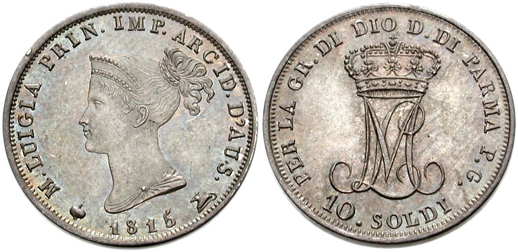 Italia, Parma. Maria Luigia. 1815-1847. AR 10 Soldi (18mm, 2.49 g, 6h). Dated 1815. Draped bust left, wearing tiara; 1815 below bust Crowned script ML monogram; value in exergue . Pagani 10; Montenegro 120; KM 27.